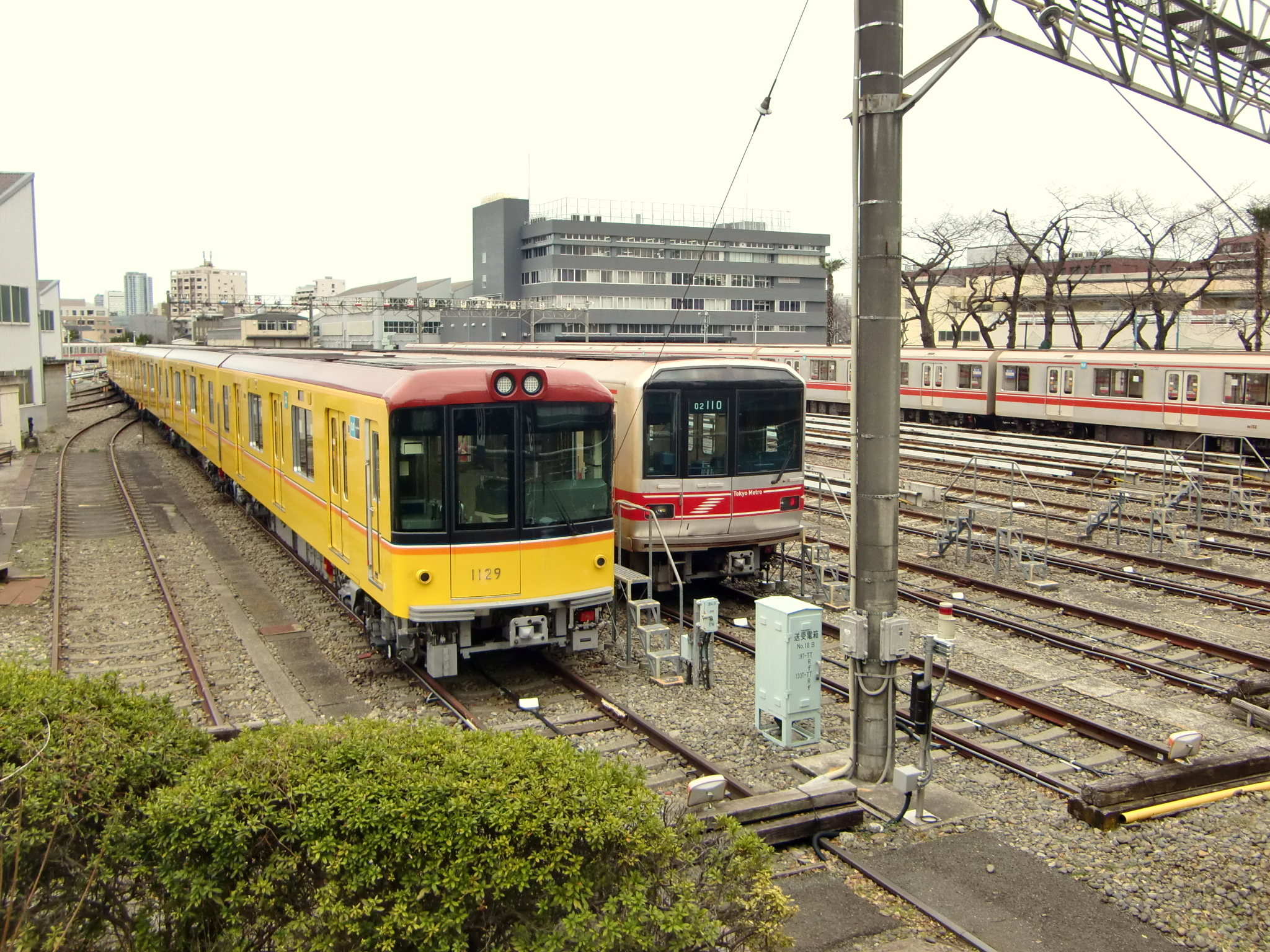 Tokyo Metro's Nakano Depot in Tokyo, Japan